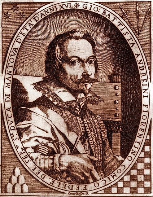 Portrait of the Italian actor, playwright, and poet Giovan Battista Andreini (1576 or 1579 – 1654).